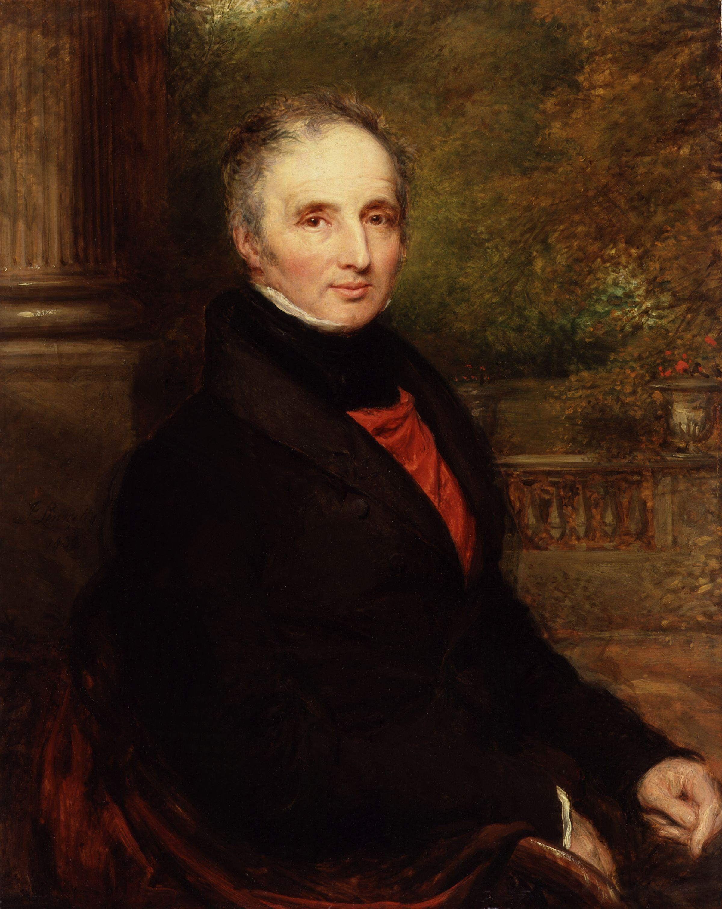 Peter King, 7th Baron King of Ockham, by John Linnell (died 1882). All images in this batch have been confirmed as author died before 1939 according to the official death date listed by the NPG.